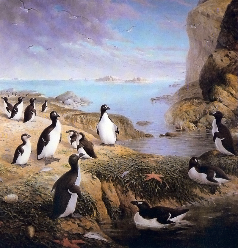 The Great Auks at Home, oil on canvas by John Gerrard Keulemans.